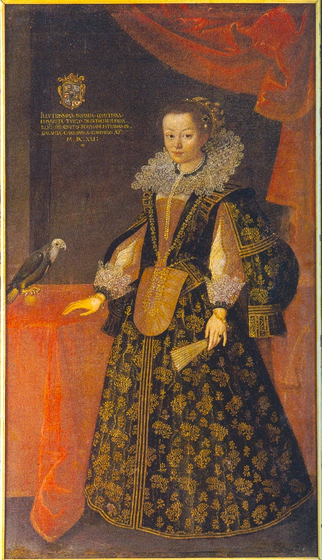 Erzsébet Thurzó, daughter of Imre Thurzó and wife of István esterházy